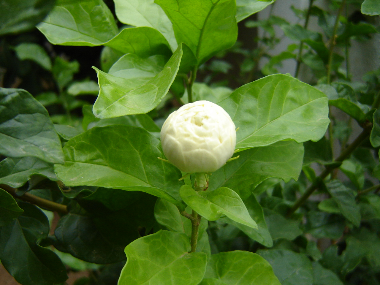 Jasmine Bud in Chennai (Perumalpattu, Tiruvallur) , TamilNadu. The bud opens out to a flower that almost has a diameter of 5cms. The price that this species pays for the big flower is that generally just a couple of flowers would be available in a plant at any given time.